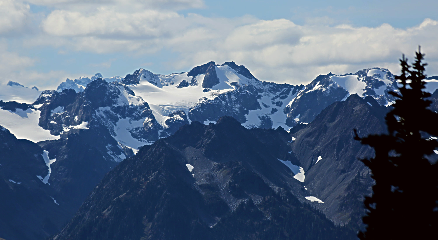 Ruth Peak from Hurricane Hill, Olympic National Park